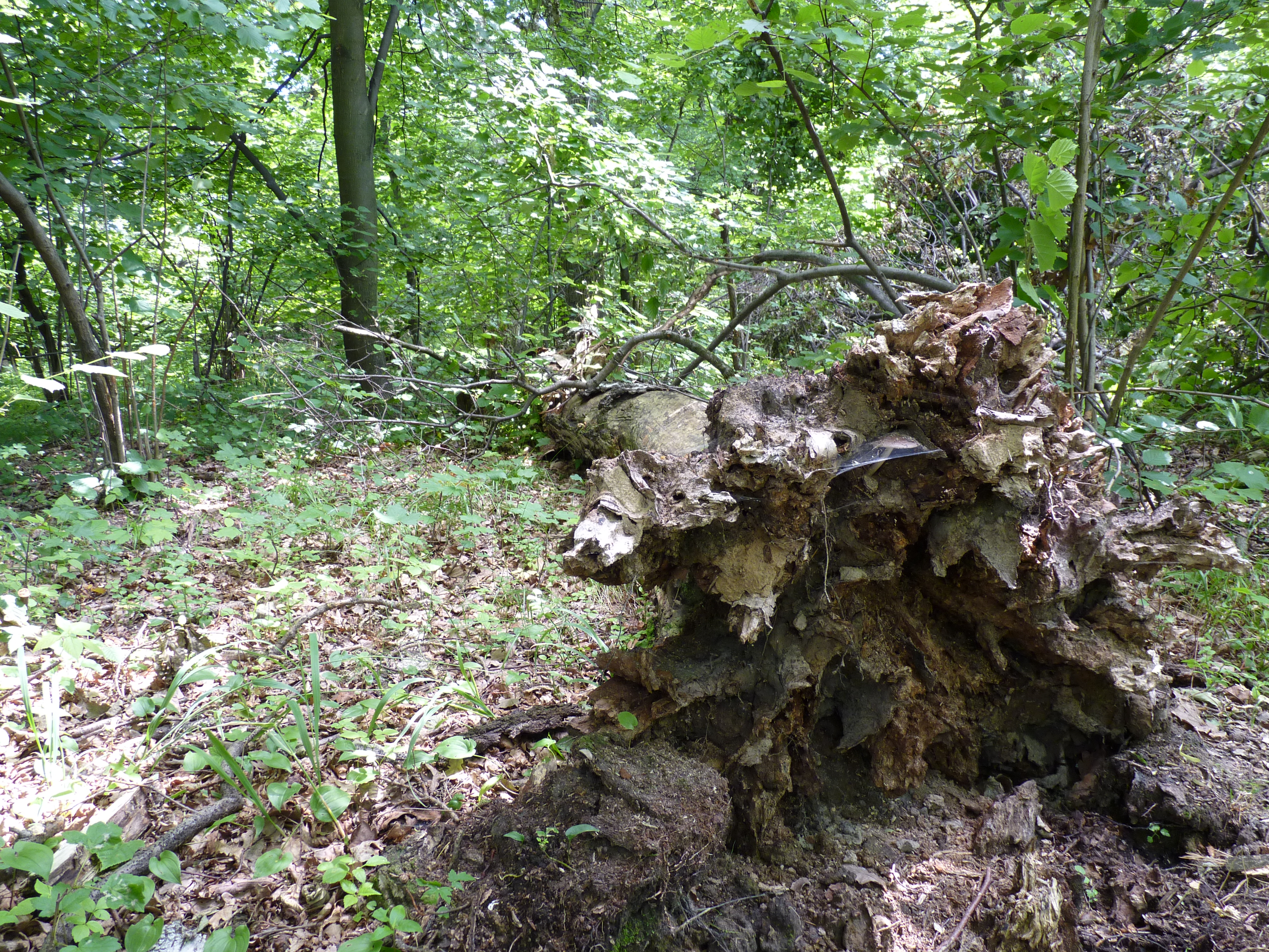 Nature reserve Dařenec. Opava District, Moravian-Silesian Region, Czech Republic